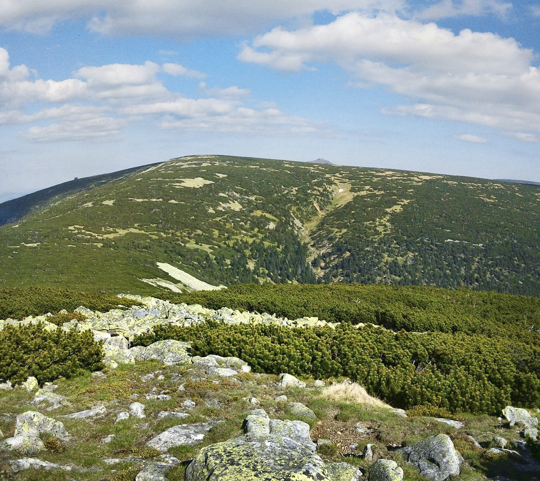 Stříbrný hřbet (Smogornia) from Malý Šišák